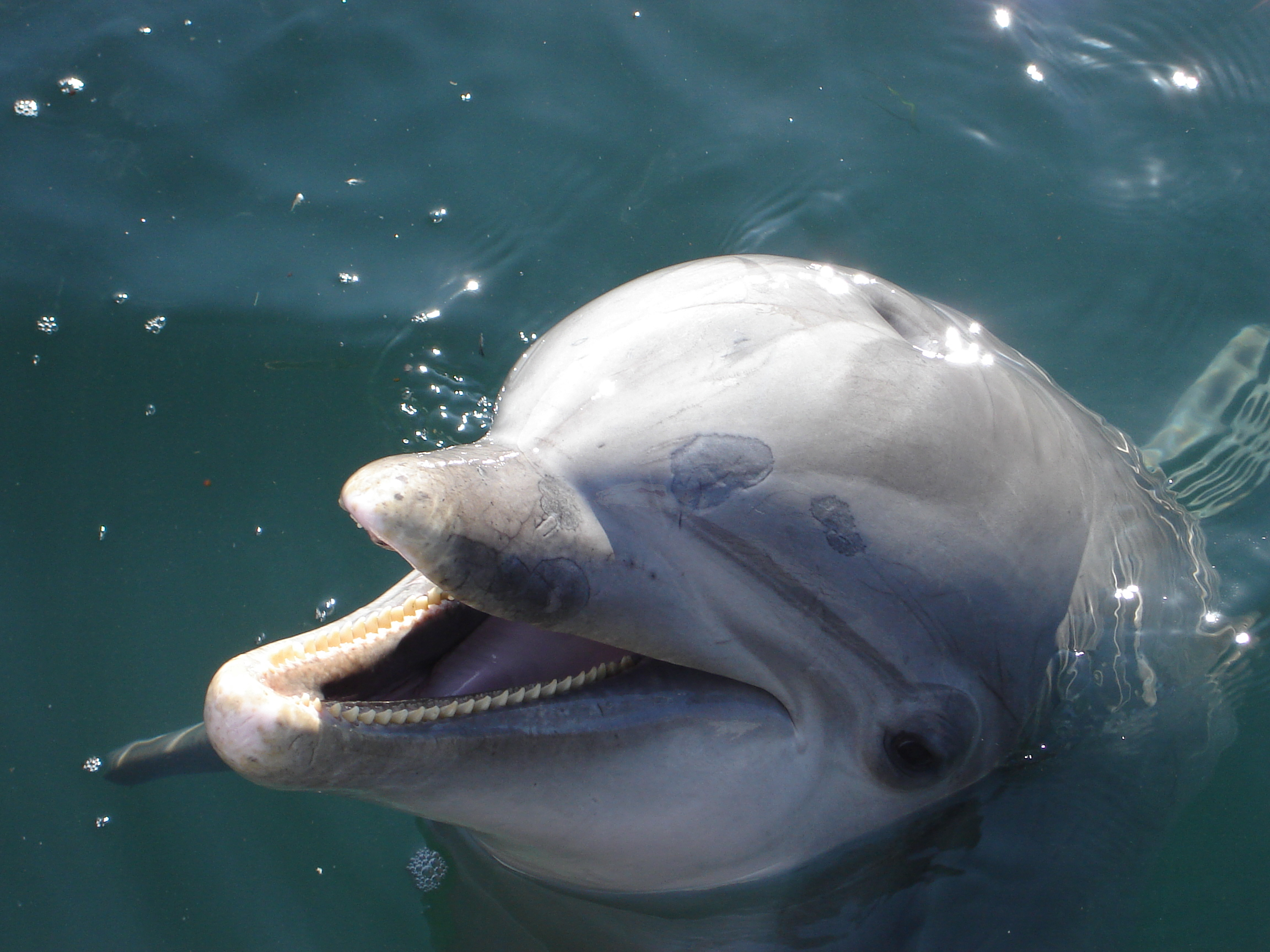 Dolphin encounter. My son was able to go to a dolphin encounter with the Navy dolphins. This is one of the best pics I got. He is waiting for my son to give him a signal so that he could get his reward.